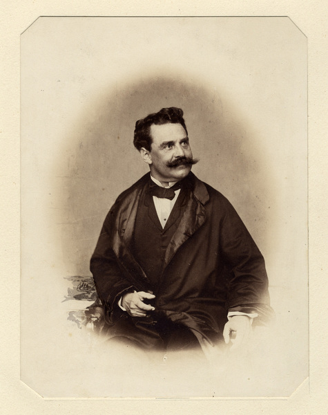 Portrait of the German painter Ernst Schweinfurth